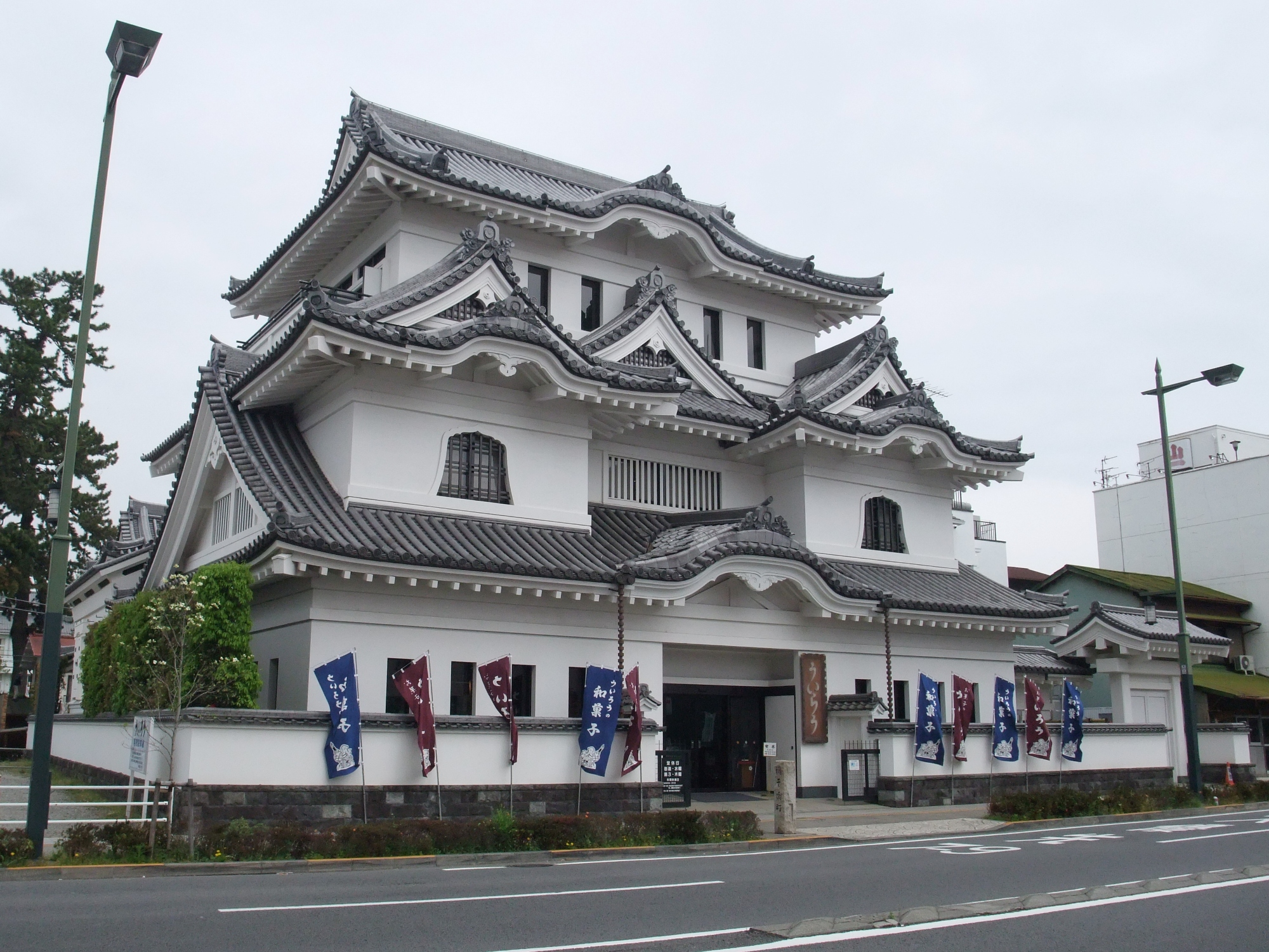 UIROU (Japanese pharmacy and Wgashi shop) in Odawara-shi, Kanagawa